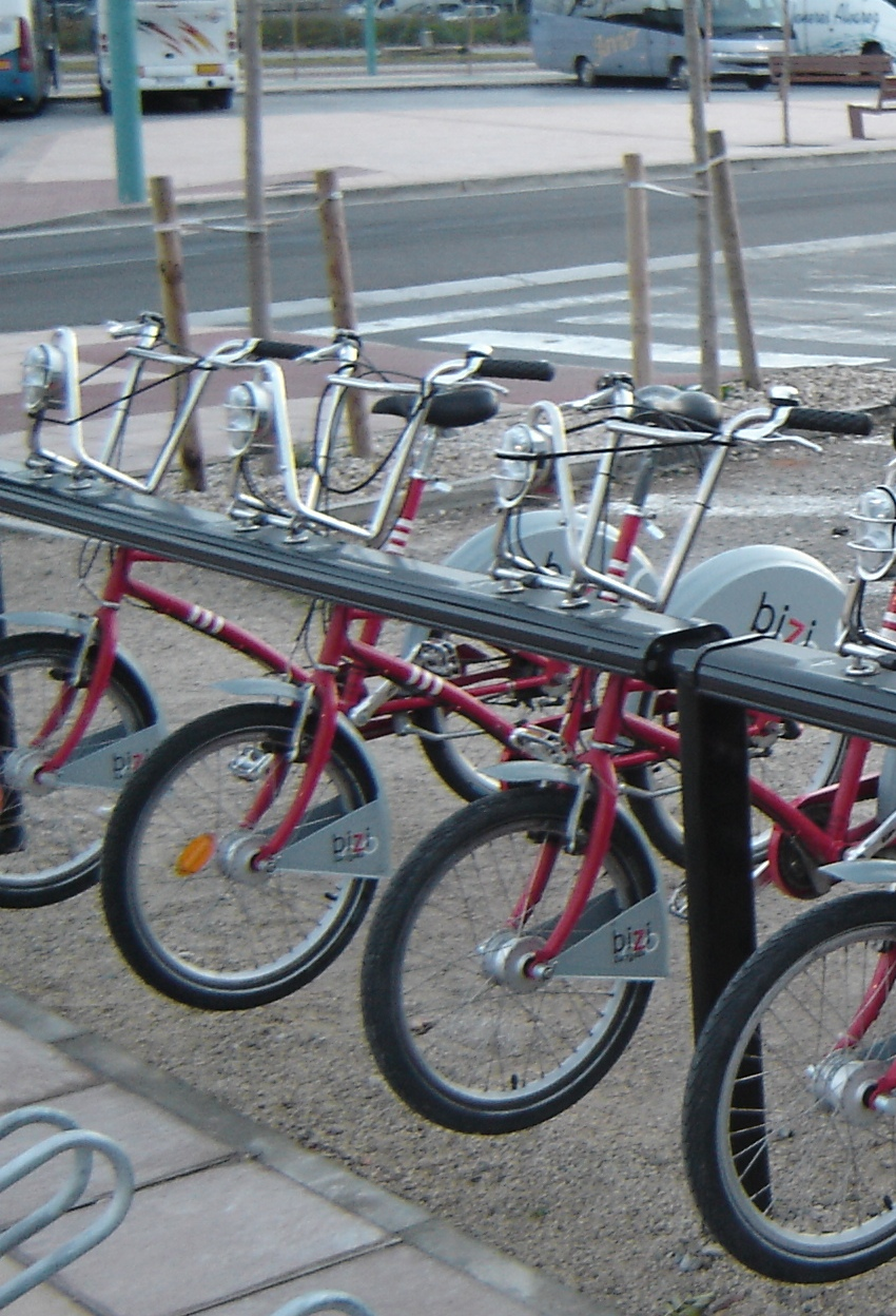 BiziZaragoza bycicle station - Zaragoza (Spain)